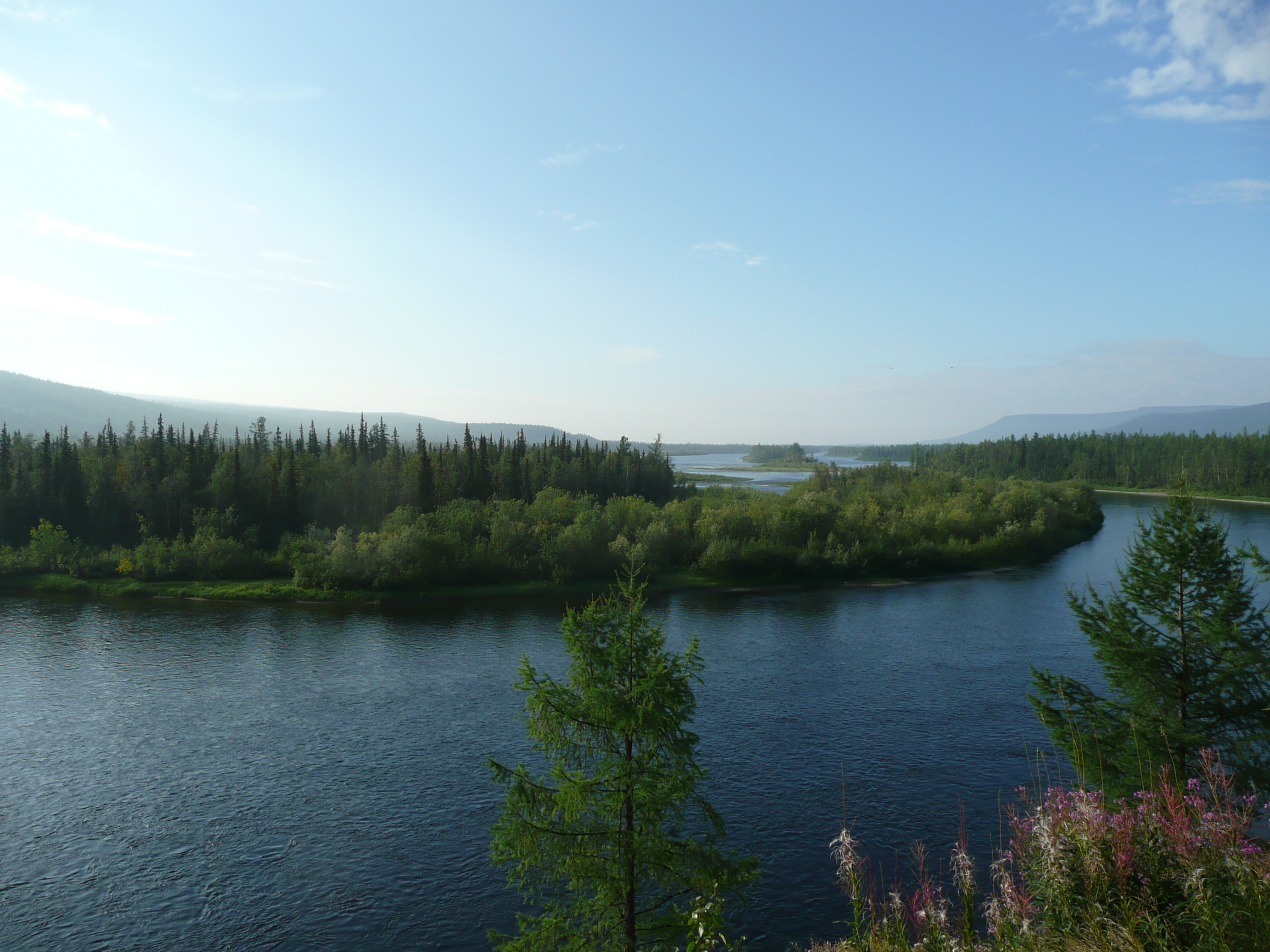 Severnaya River, tributary of Nizhnyaya Tunguska. (see [1]).